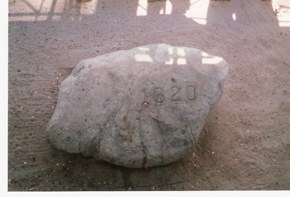 plymouth rock